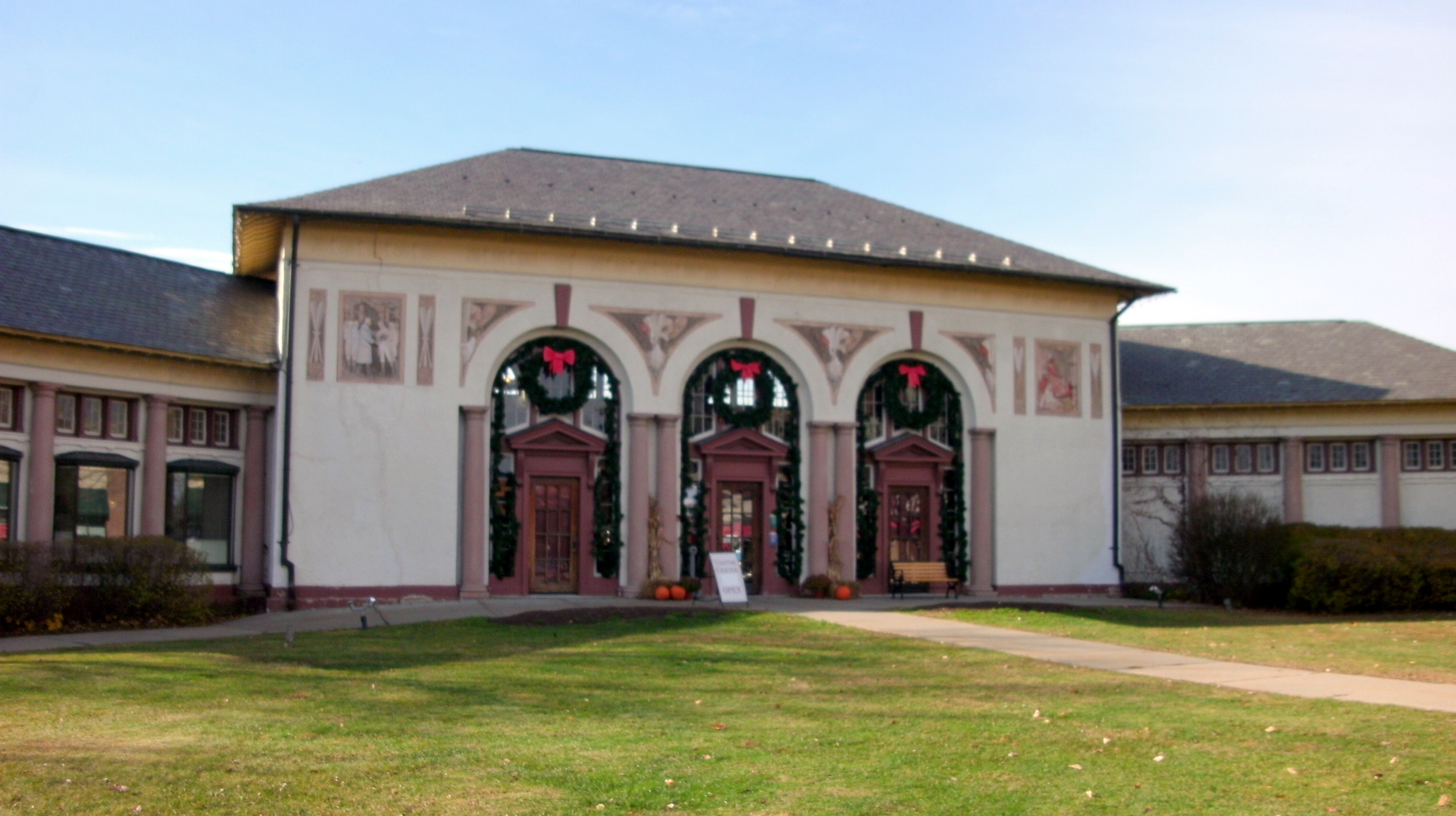 GE DIGITAL CAMERA Saratoga Springs, New York